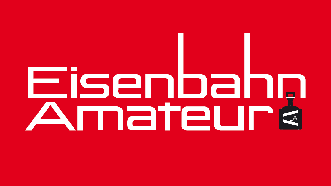 Logo of the Schweizerischer Verband Eisenbahn-Amateur (SVEA) and Eisenbahn Amateur newspaper (EA), Switzerland.